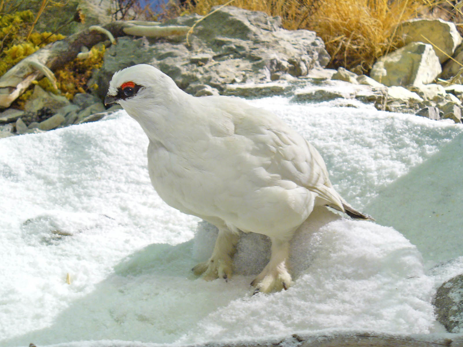 Lagopus muta, Phasianidae, Rock Ptarmigan. National park center, Zernez, Switzerland. The feathers are used in homeopathy as remedy: Lagopus mutus (Lagop-m.)